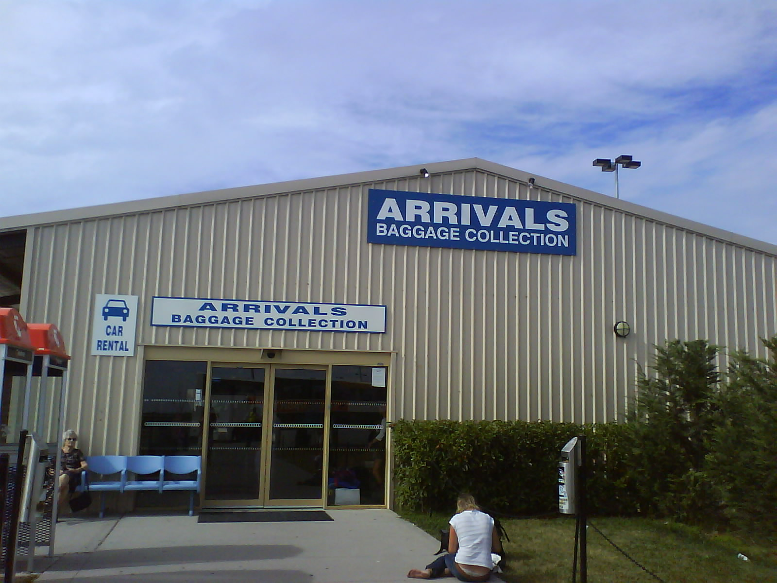 Own pics taken.. Arrival hall entrance